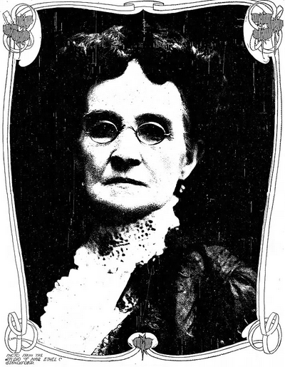 Mrs. M. C. Walling A distinguished Kentucky woman Photo from the studio of Mrs.Ethel C. Standford